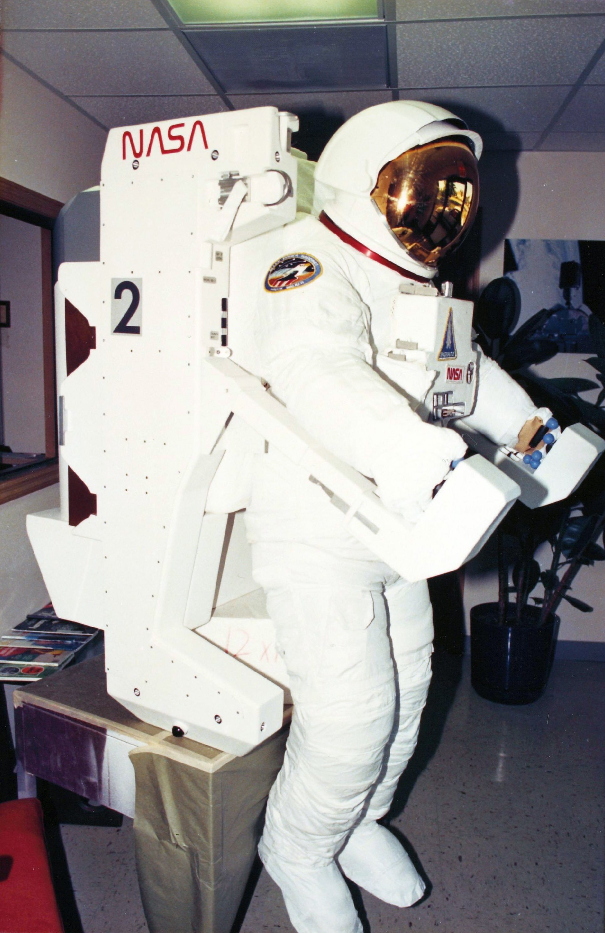 Full Pressure Space Suit photographed by the San Diego Air and Space Museum Archive